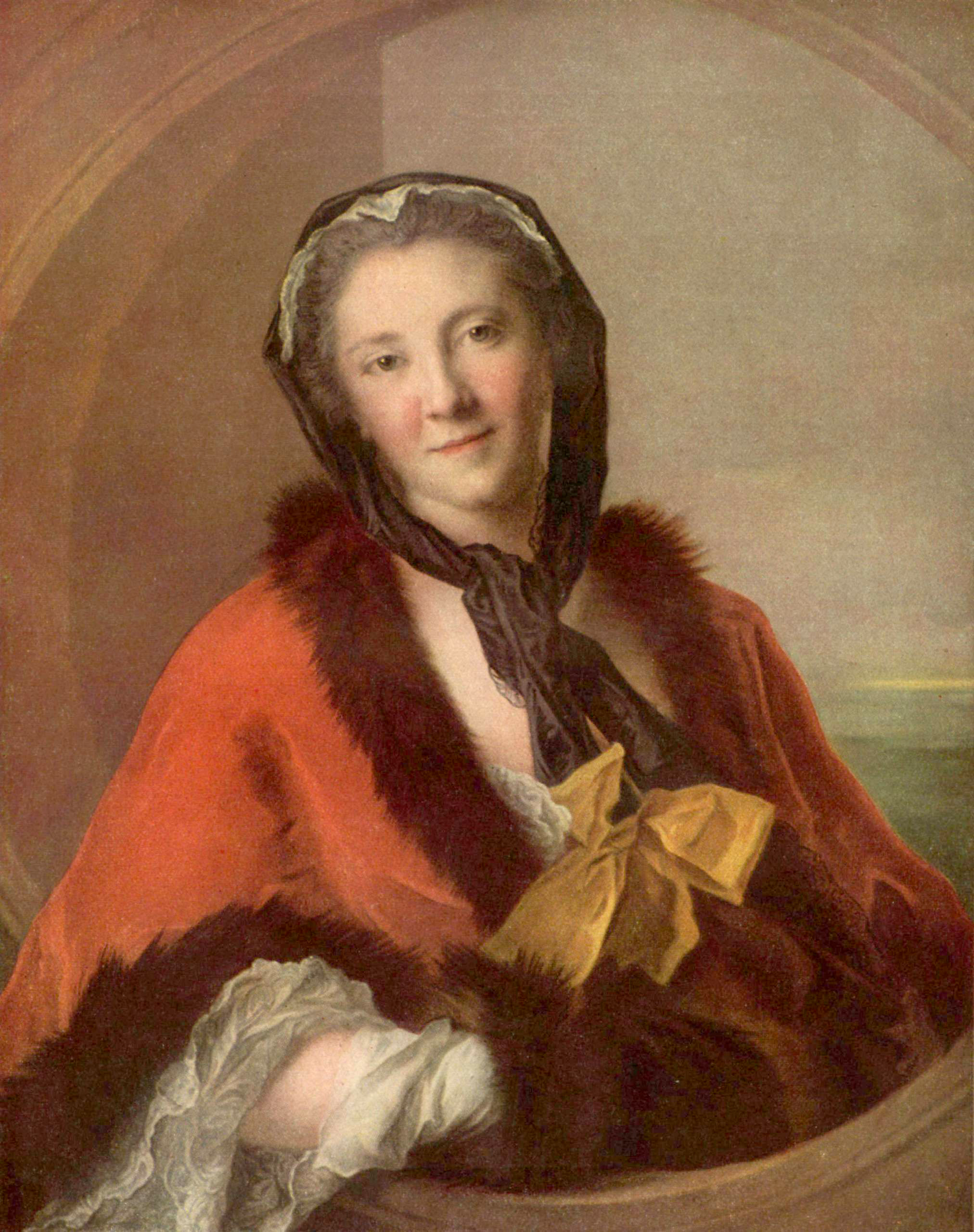 Portrait of Ulla Sparre (1711-1768), wife of count Carl Gustaf Tessin